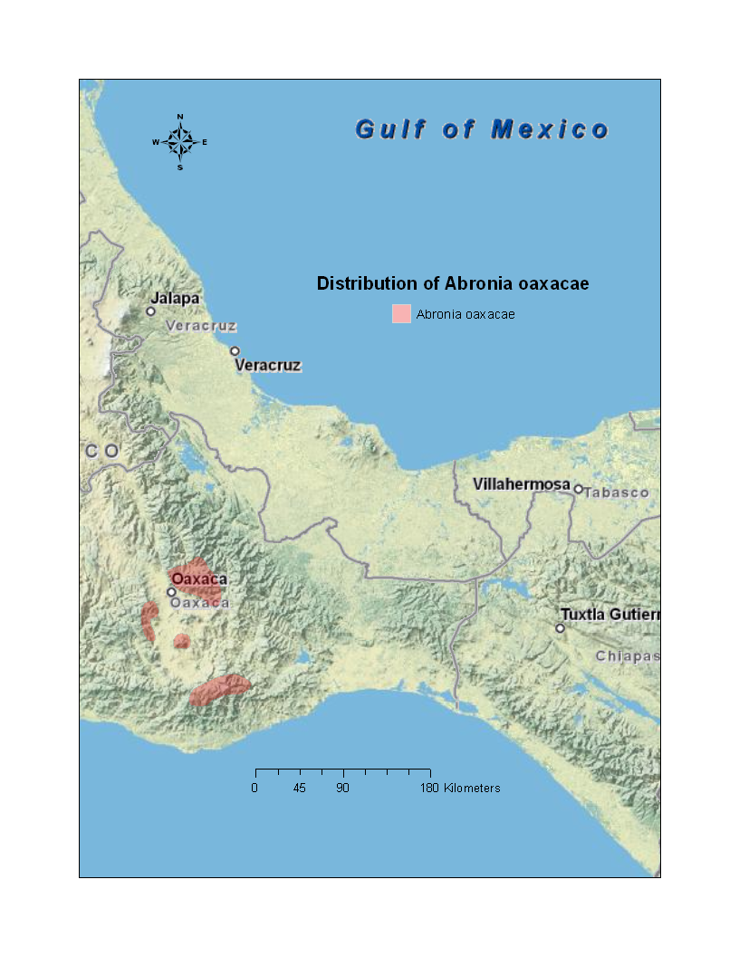 Range of Abronia oaxacae